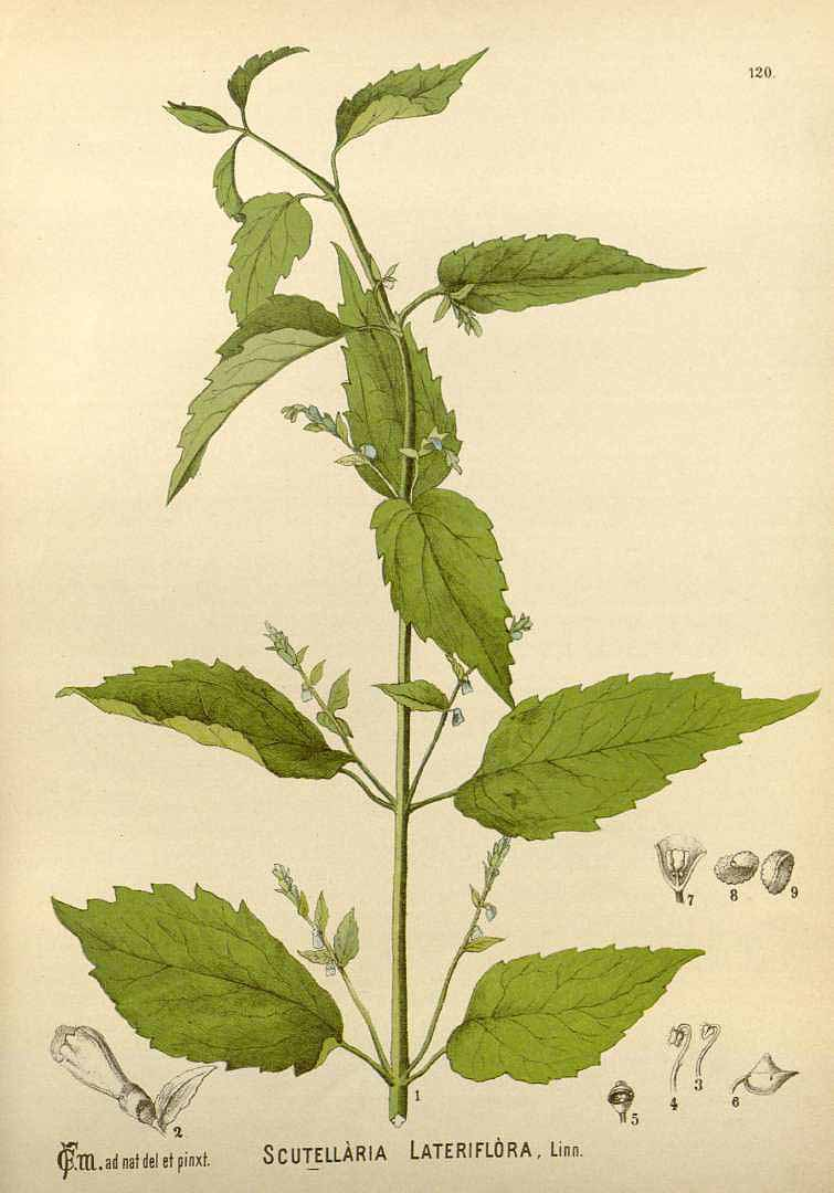 Millspaugh, C.F., Medicinal plants, vol. 2: t. 120 (1892)